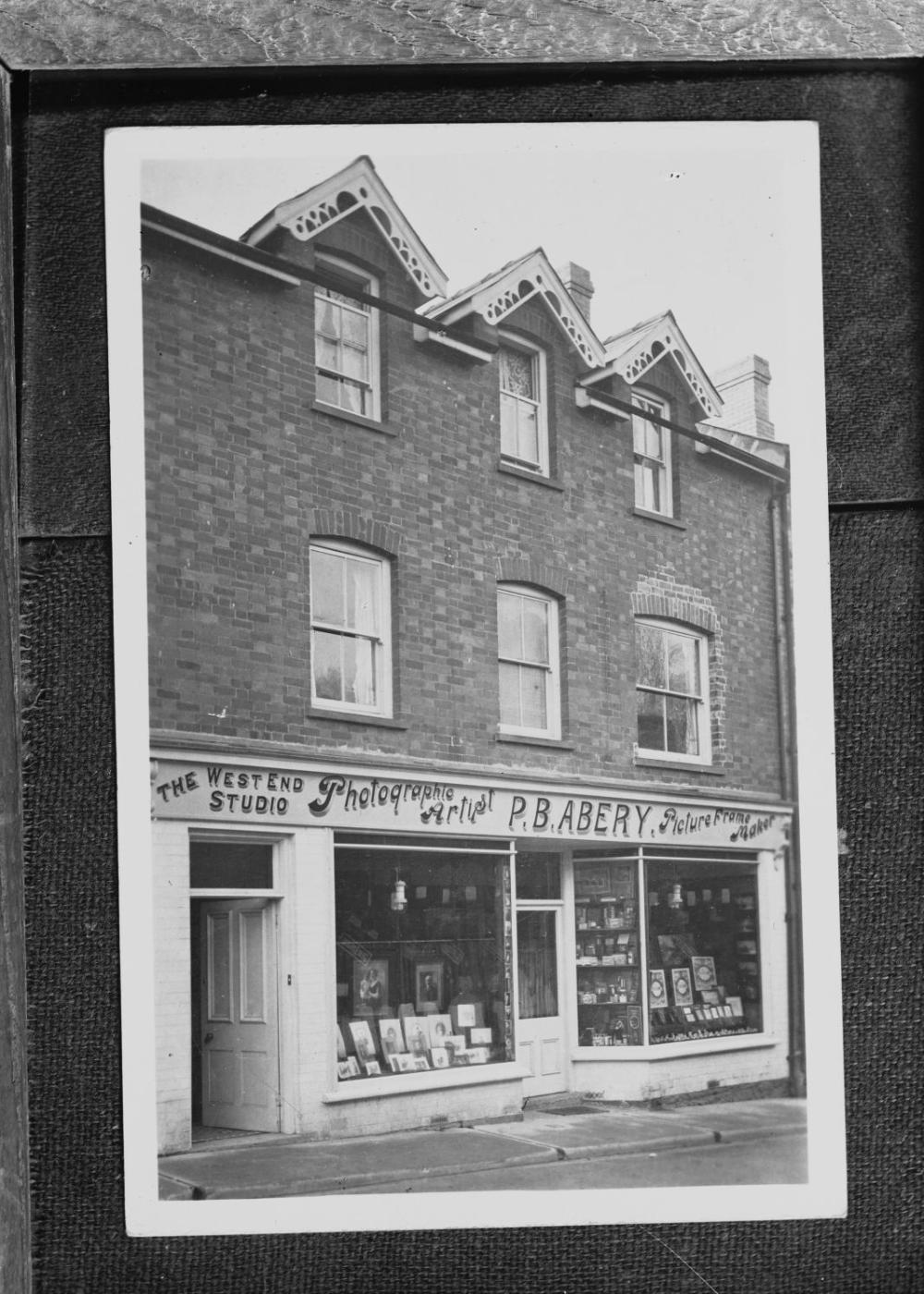 Abstract: Photographic studio of P.B. Abery, Builth Wells